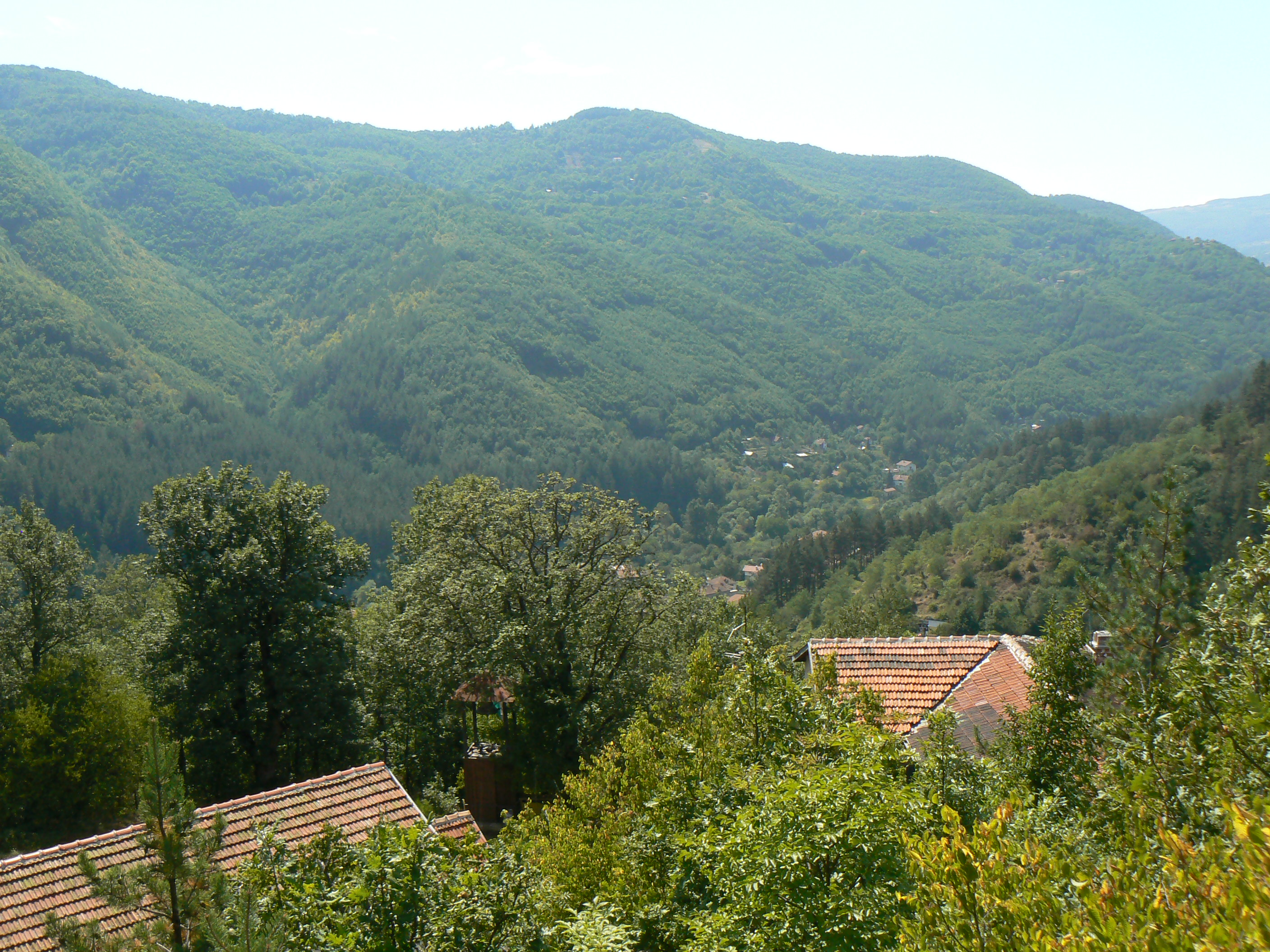 Village Batulia as seen from the hill of the Batulia Monastery, Bulgaria